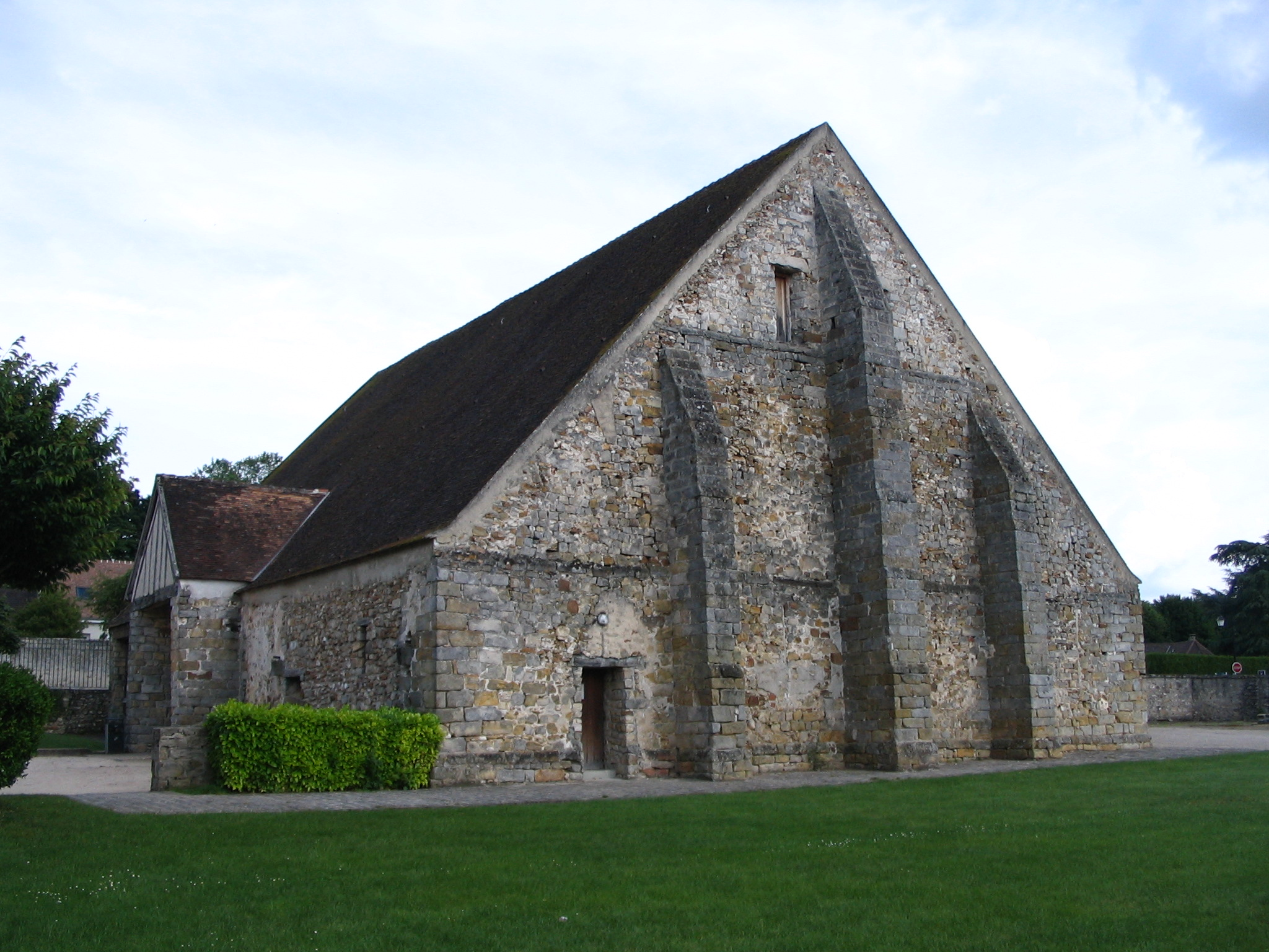 The tithe barn of Samoreau, Seine-et-Marne, France.